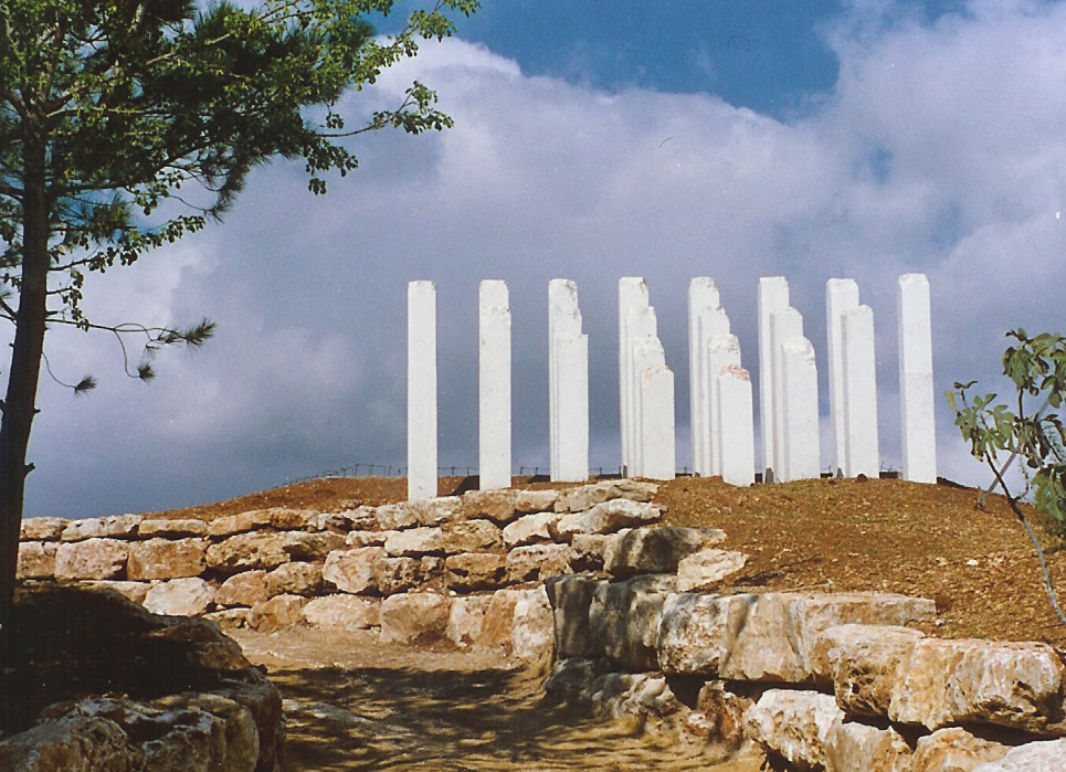 Israel, Jerusalem, Yad Vashem, Children's Memorial